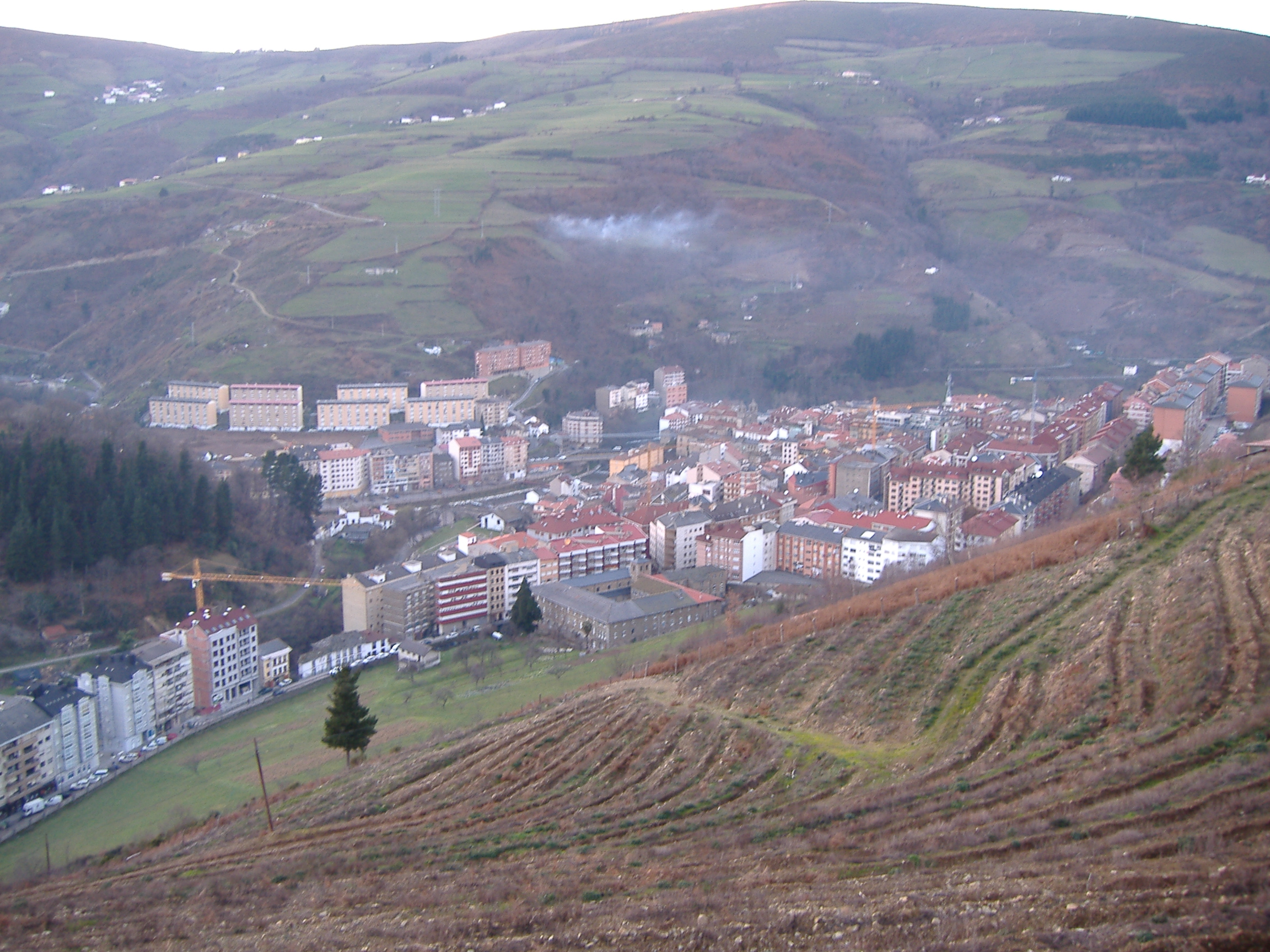 Cangas del Narcea, Asturias, Spain January 2006